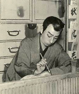 Uzaemon Ichimura XV (1874–1945) as Akashi no Shimazō in the July 1921 production of Shima-chidori Tsuki no Shiranami at Tokyo Shintomi-za theather.